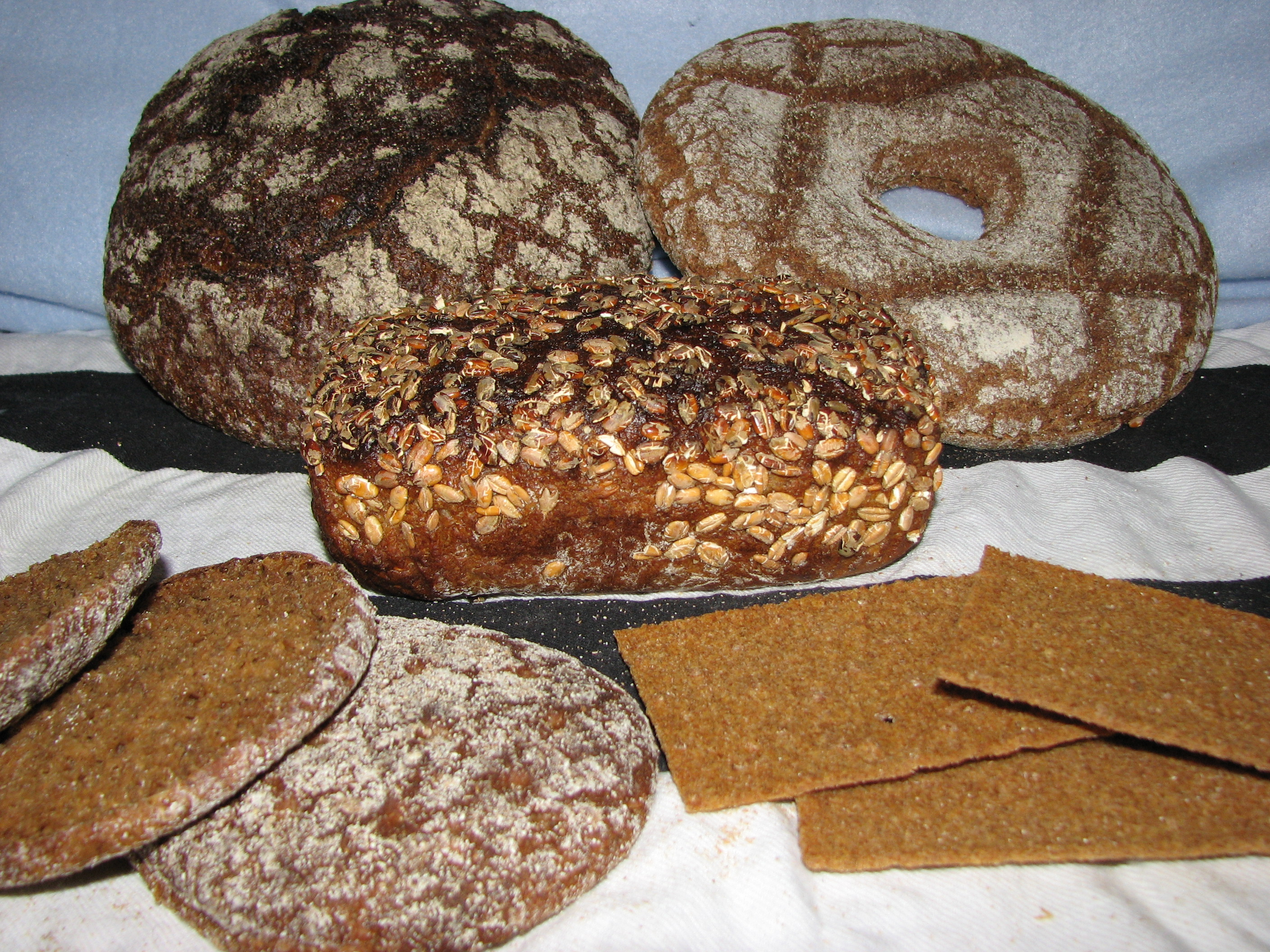 5 of the main types of rye bread available in Finland. From top to bottom/left to right: Ruislimppu, reikäleipä, rye loaf, reissumies (a variant of perhaps the most common type of rye bread in modern Finland) and hapankorppu